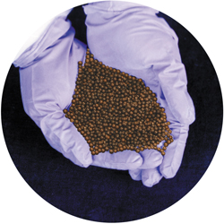 Palladium-based sorbent beads